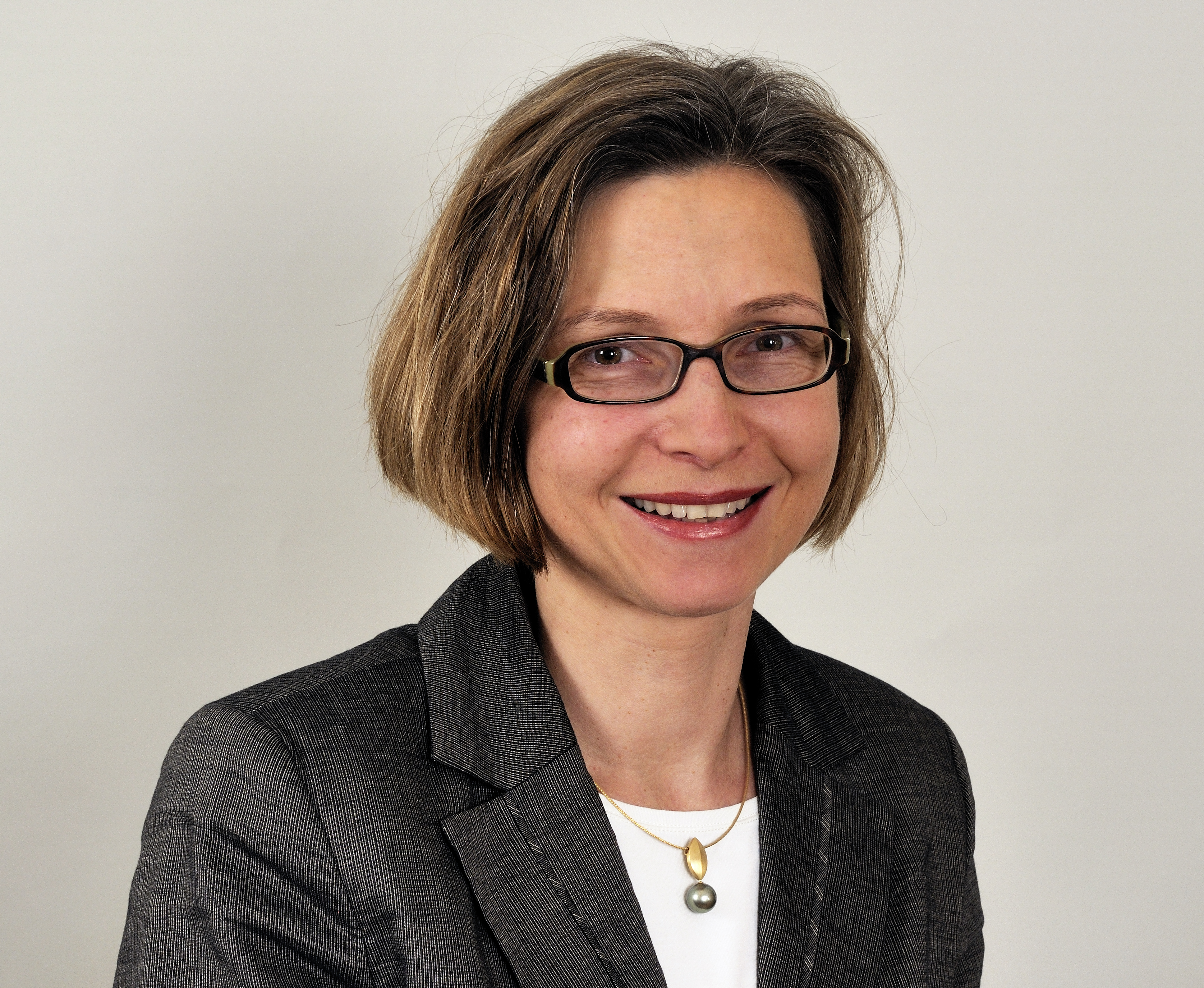 Bettina Wiesmann, Hessian politician (CDU) and member of the Landtag of Hesse.